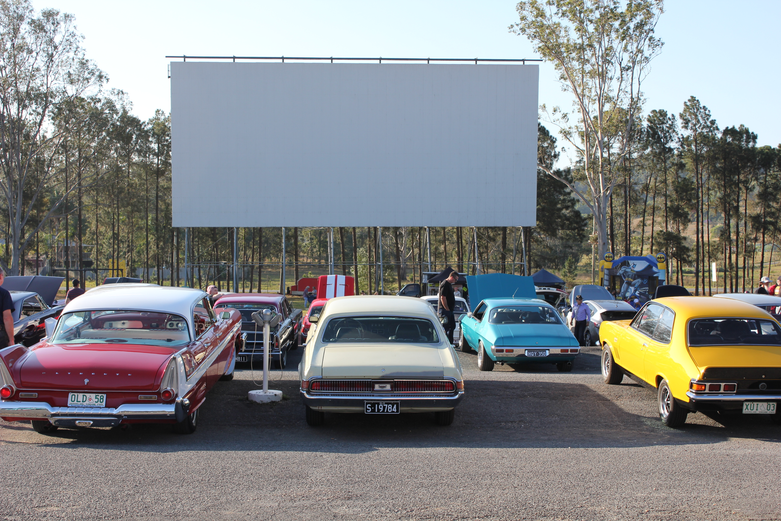 The Yatala Drive-In theatre during their Nostalgia Night.